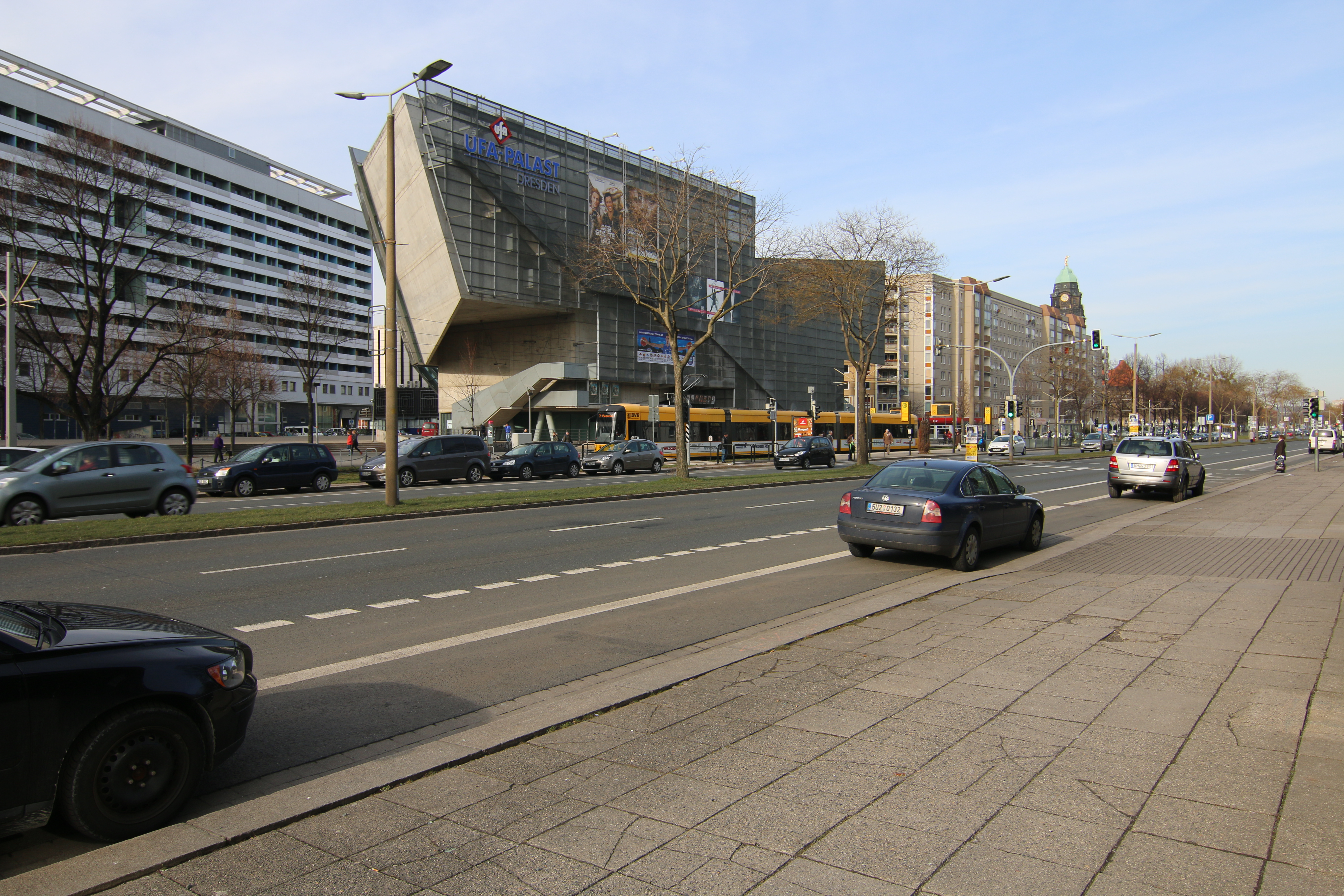 Ufa-Kristallpalast (Dresden)